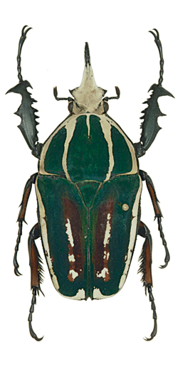 Mecynorhina ugandensis var. 39